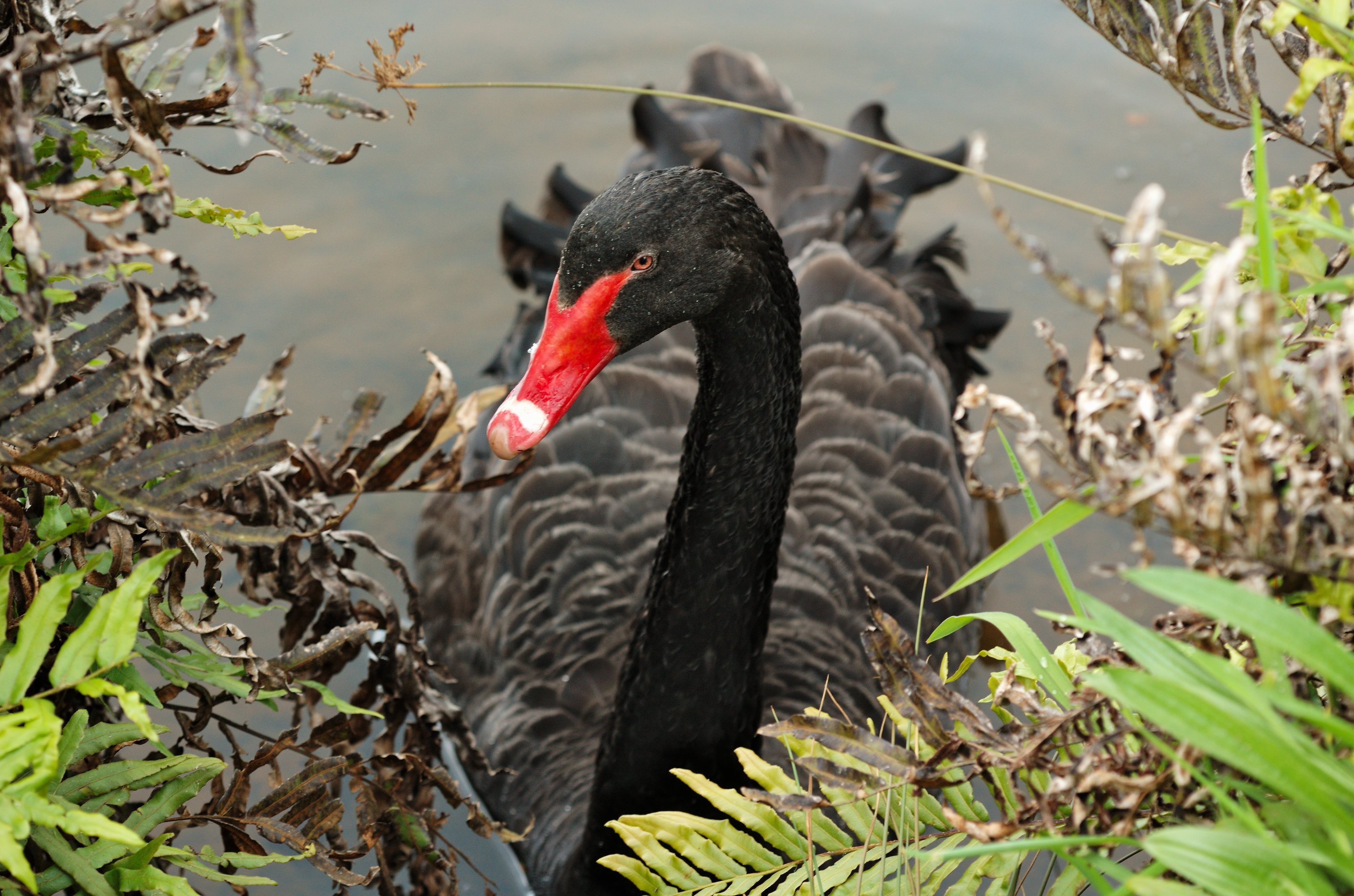 A Black Swan swimming in the Romaine Reservoir, Burnie, Tasmania.